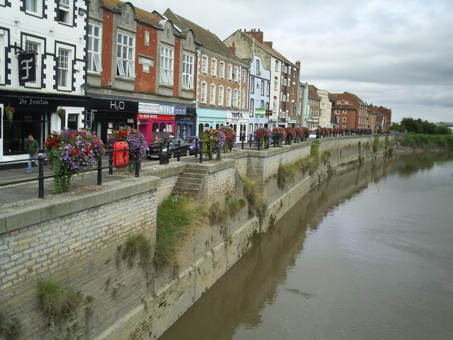 West Quay, Bridgwater from the old town bridge This was once a working river frontage but has now been prettified.